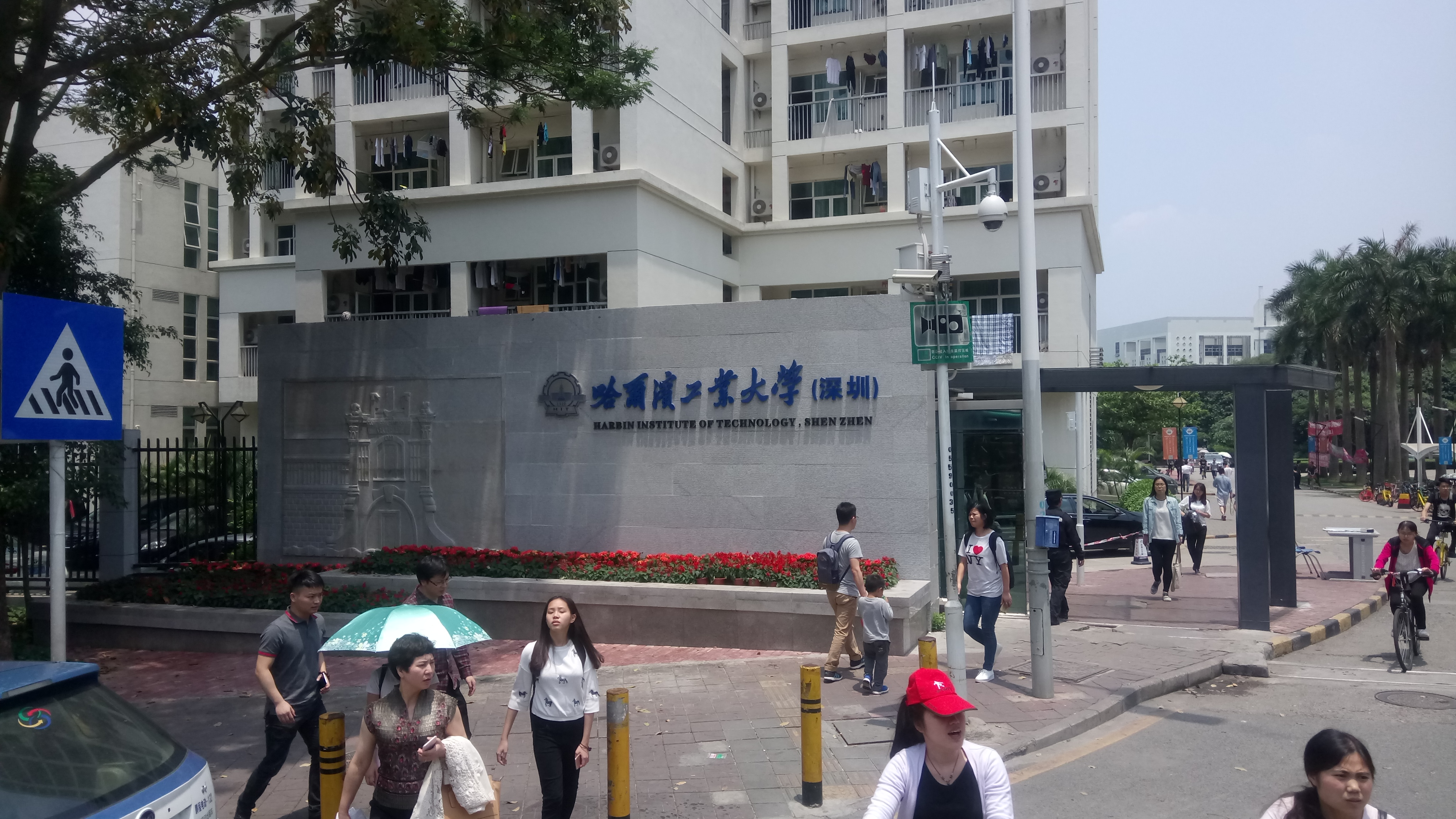 Harbin Institute of Technology Shenzhen entrance